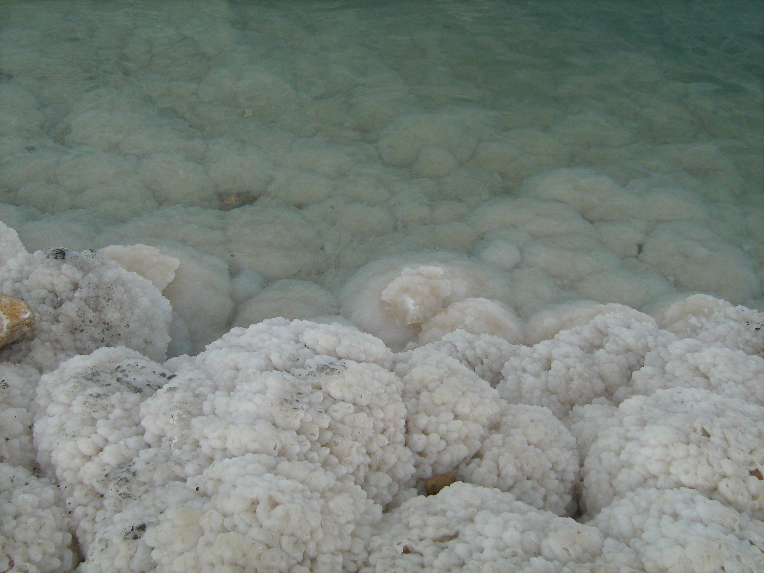 Salt crust on stones at the Dead Sea shore.